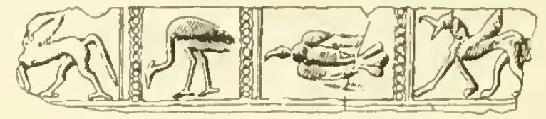 Fragment of a thin electrum band (in two pieces) with stamped figures of animals within panels formed by vertical lines and bands of punched disks.